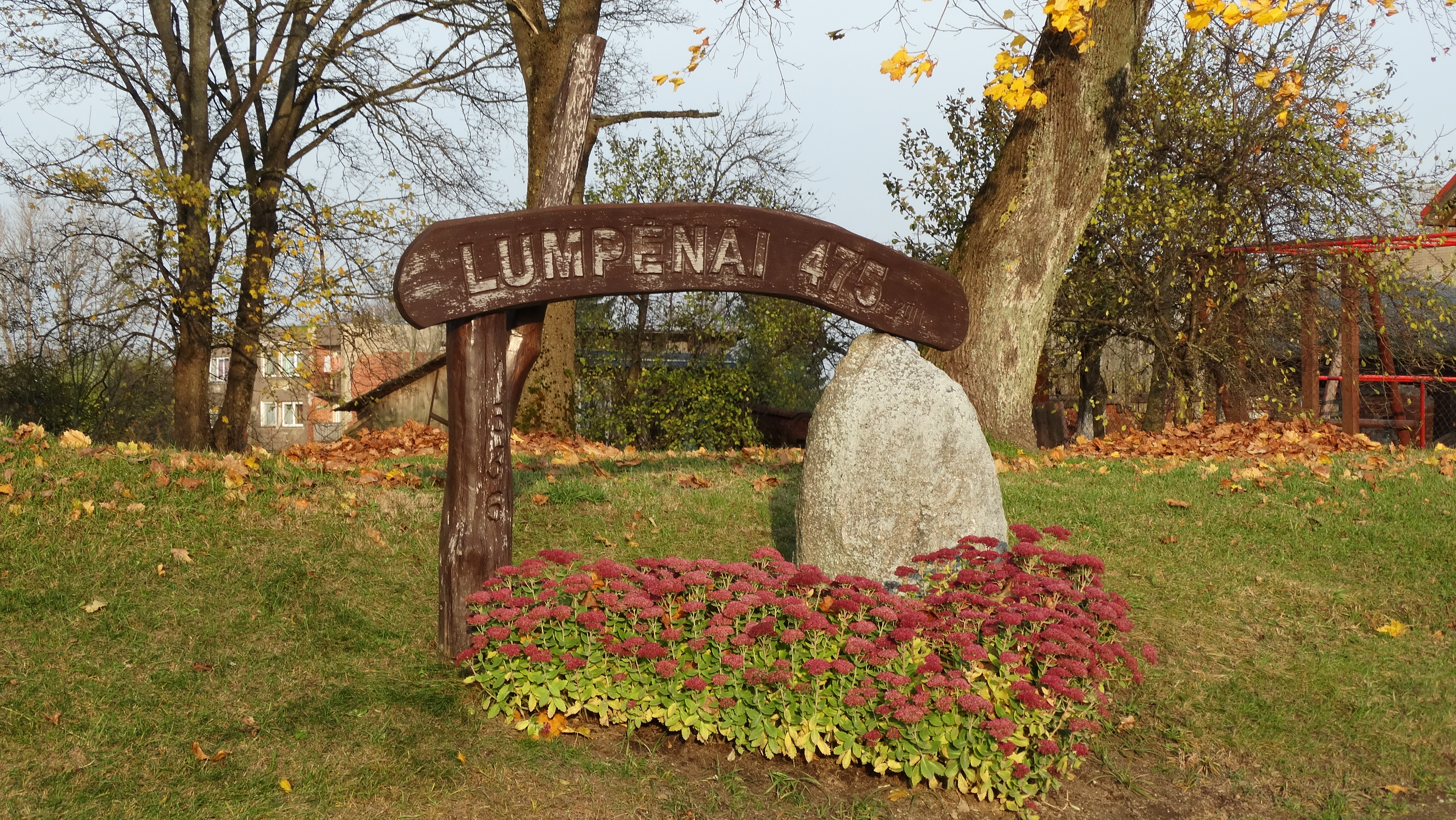 Lumpėnai, Pagėgiai Municipality, Lithuania